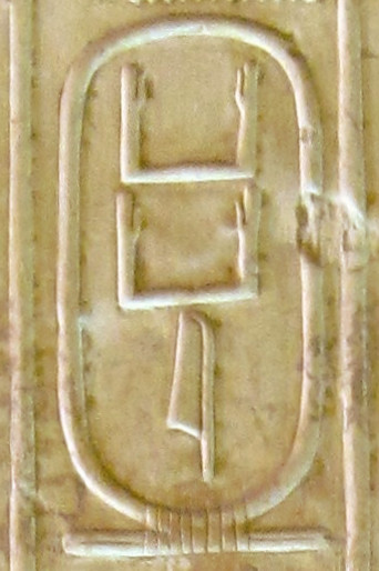 Cartouche 28, Abydos King List. Temple of Seti I, Abydos, Egypt